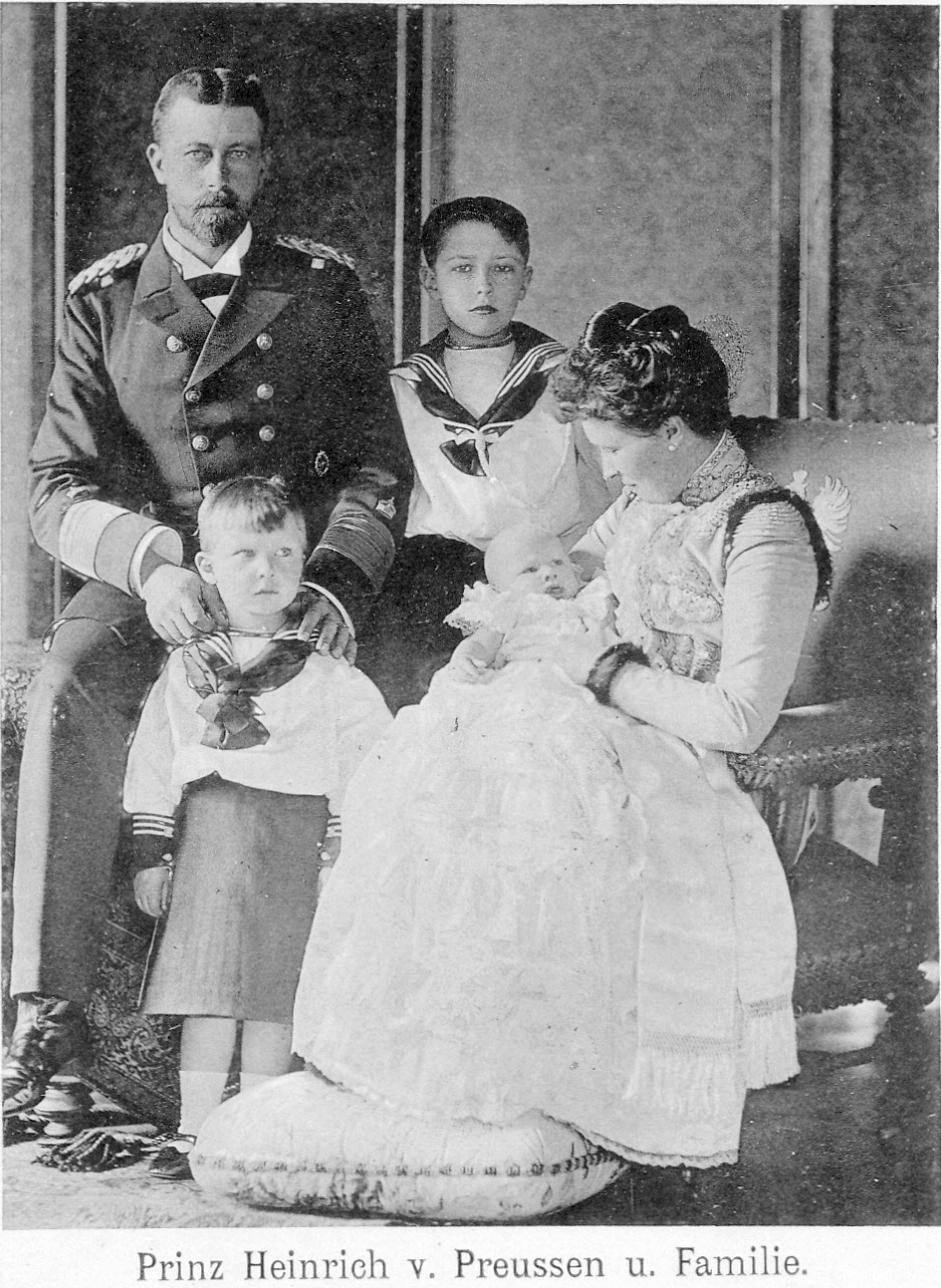 Postcard showing Prince Heinrich of Prussia and family.